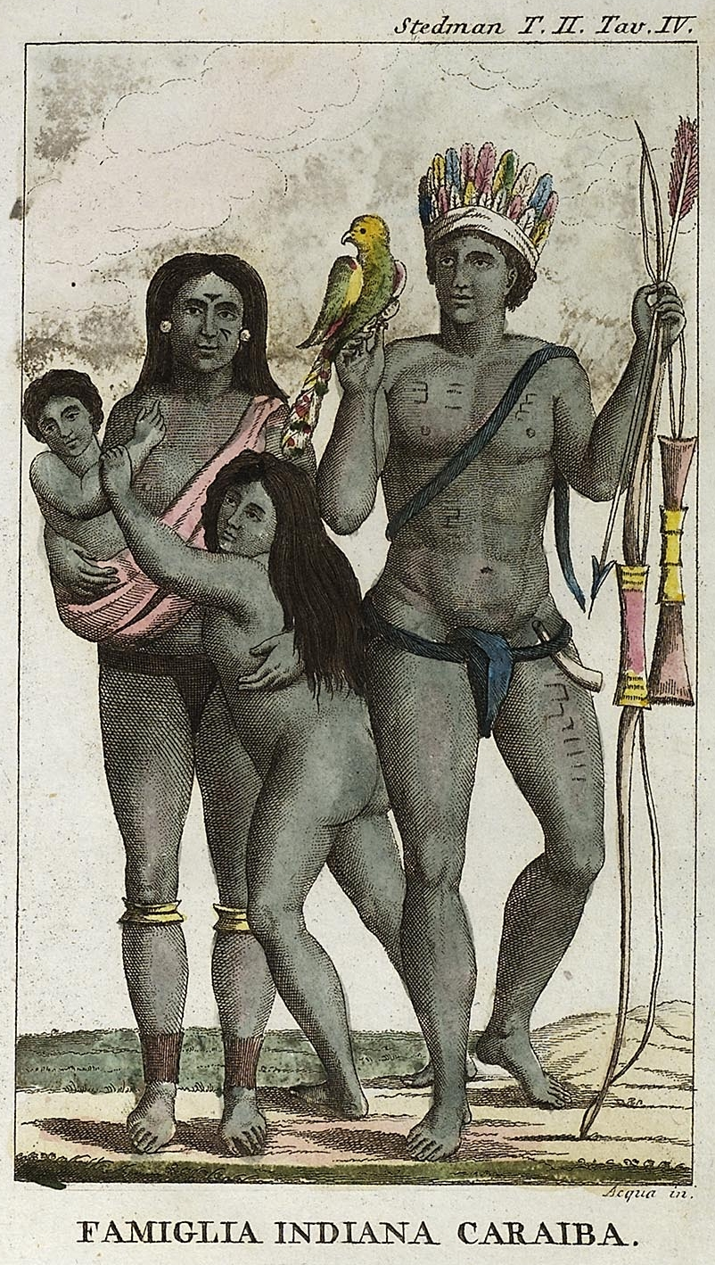 Carib (Kalina or Galibi) indian family after a painting by John Gabriel Stedman.